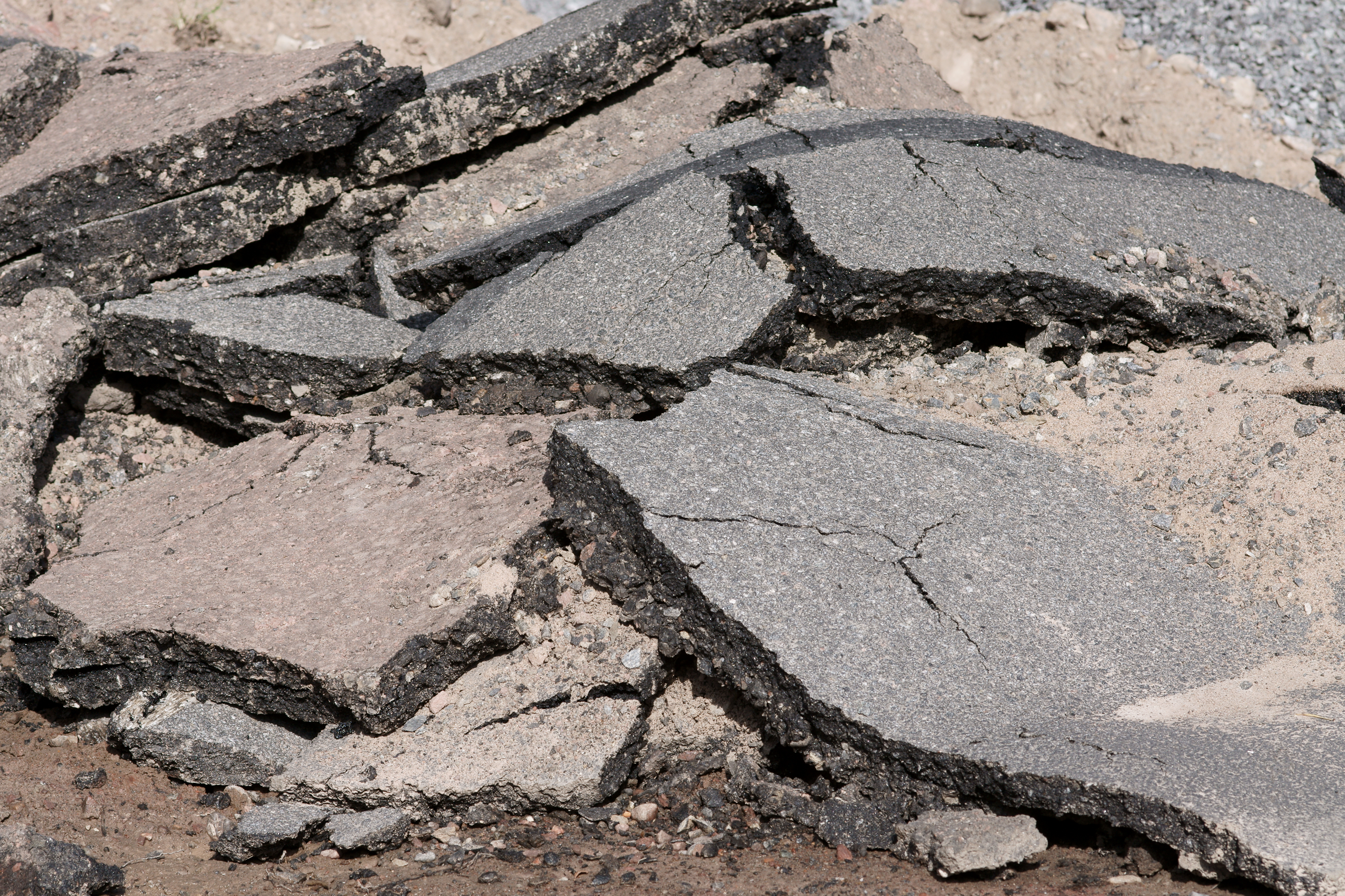 Old, used asphalt-pavement.